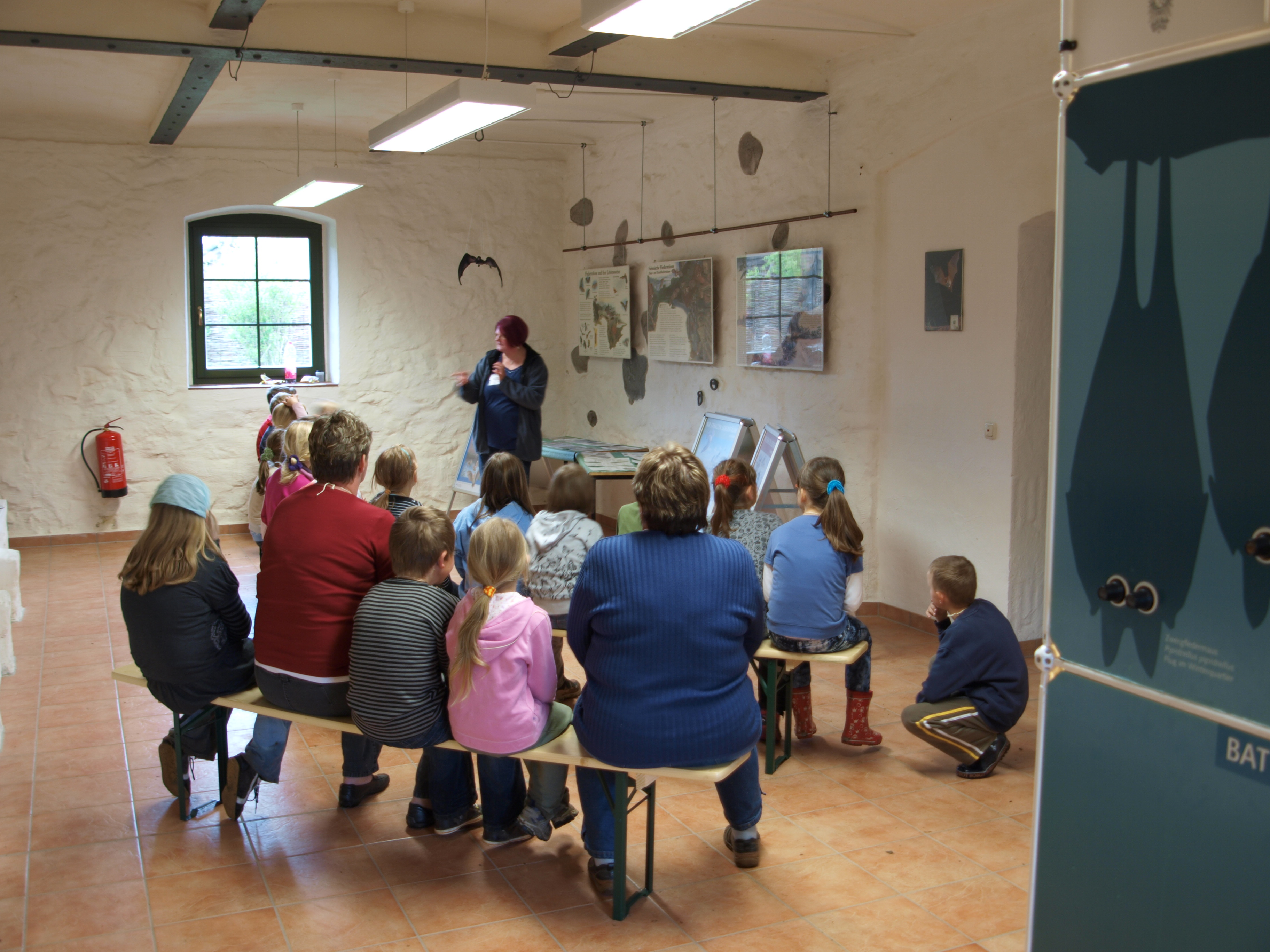 Lecture